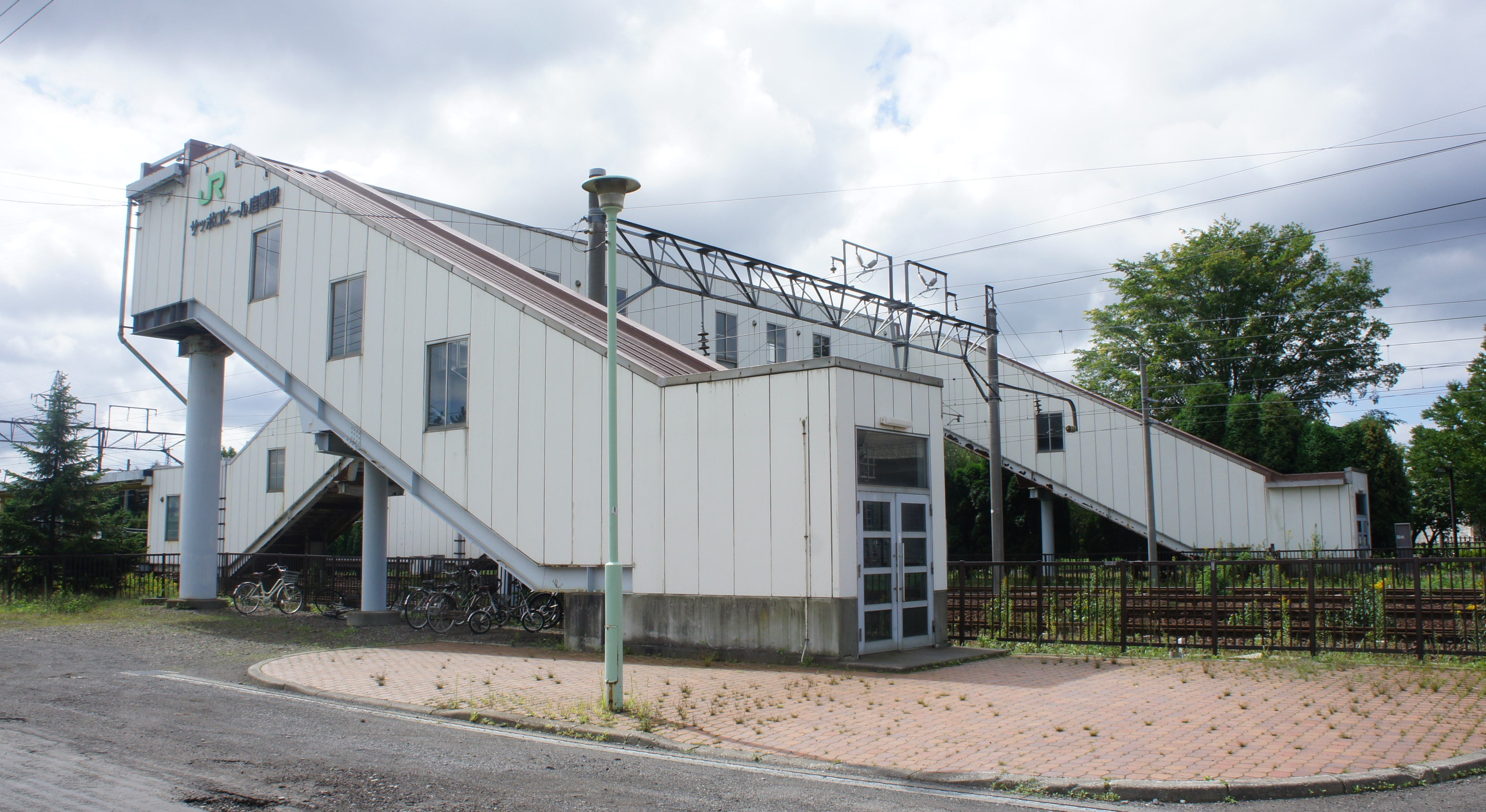 Overpass Appearance of JR Chitose-Line Sapporo-Beer-Teien Station